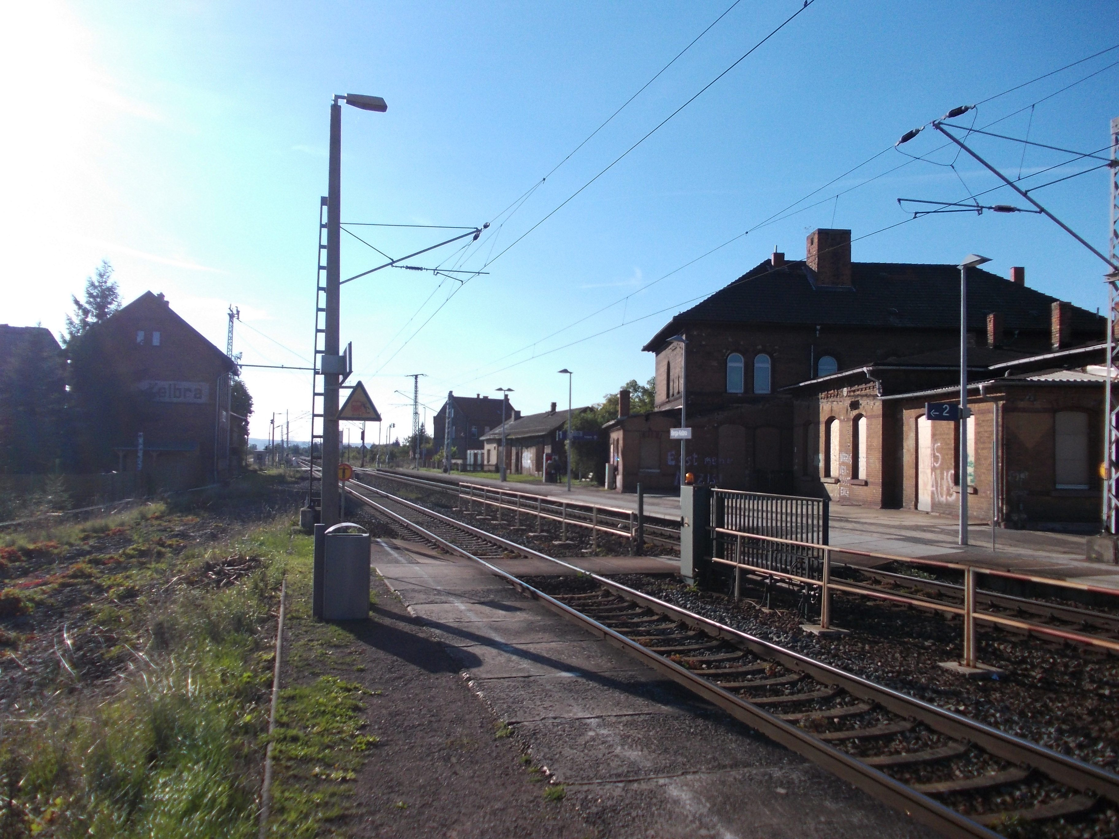 Berga-Kelbra train station (Berga/Kyffhäuser, Mansfeld-Südharz district, Saxony-anhalt)